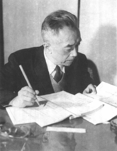 Hu Shih in Taichung, 1960